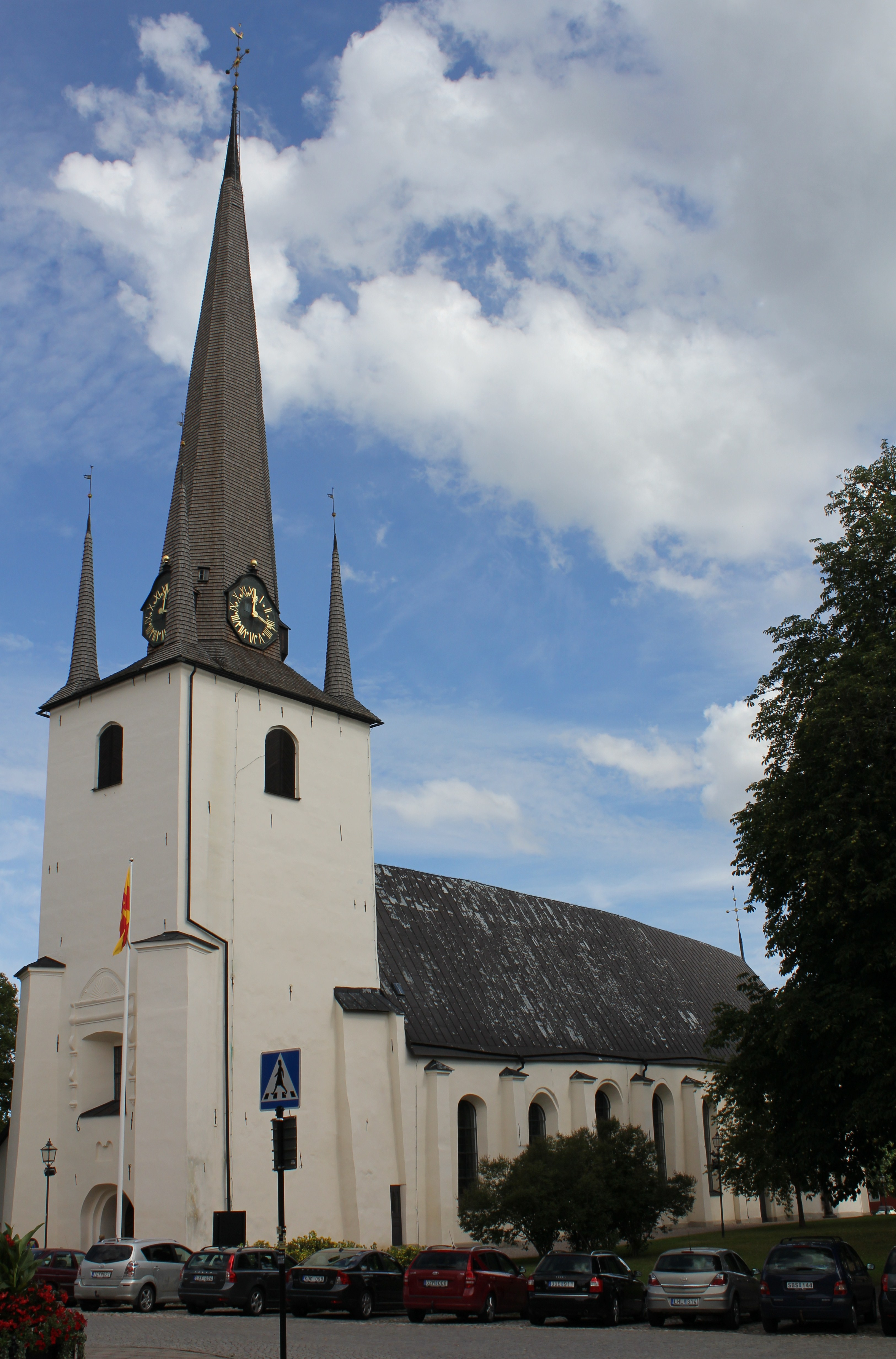 Heliga trefaldighets kyrka in Arboga, Sweden.